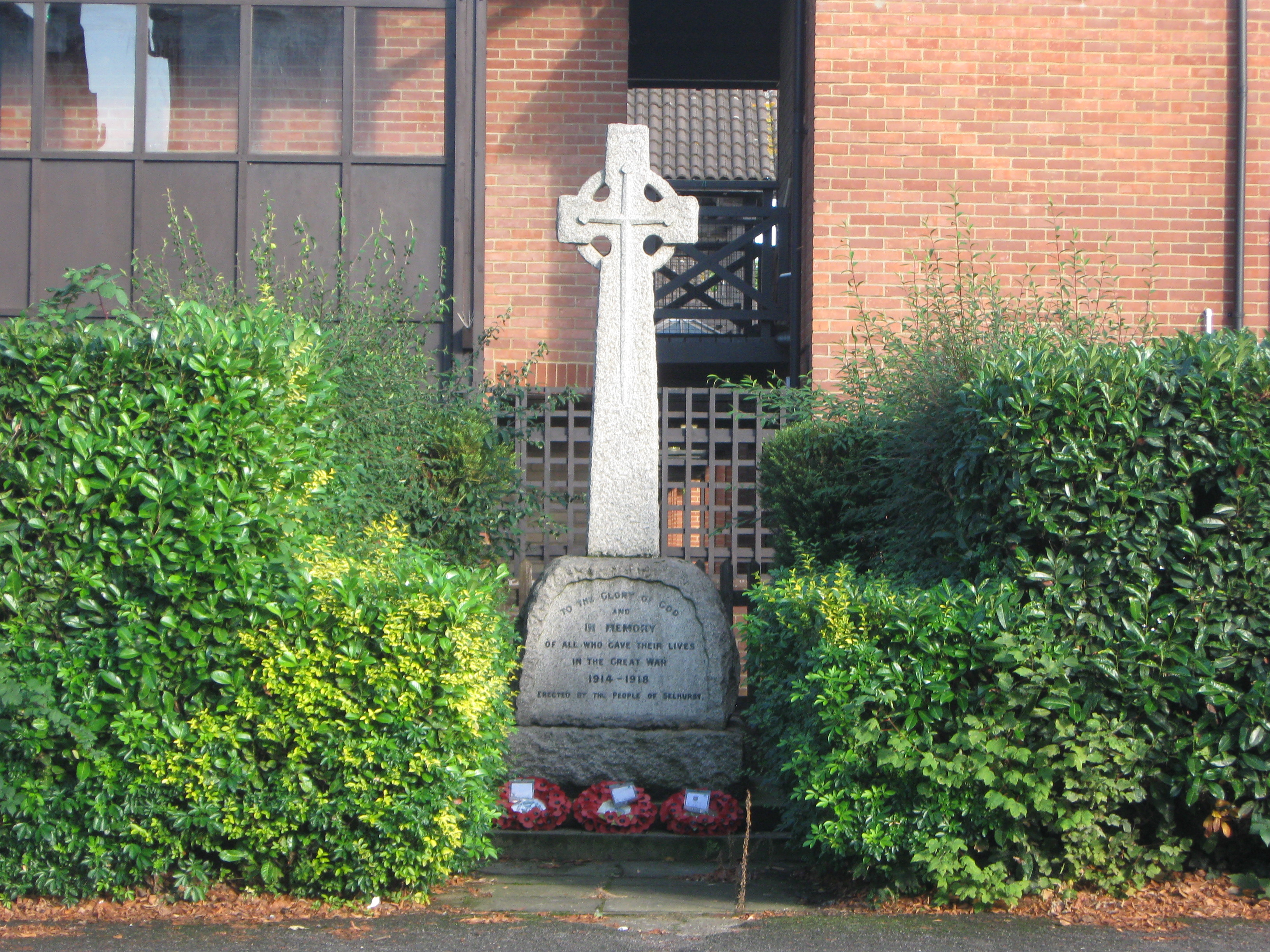 Selhurst War Memorial Wikidata has entry Q66478500 with data related to this item.